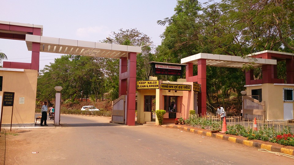 Damanjodi Entrance Gate